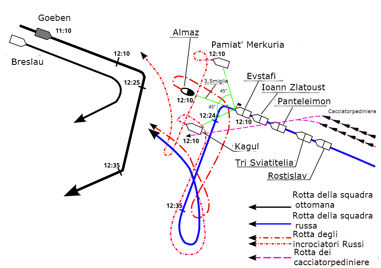 Plan of the Sarych cap battle (Бой у мыса Сарыч) in 1914- italian version